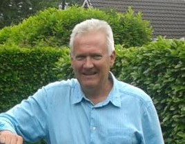 Brian McBride - Director